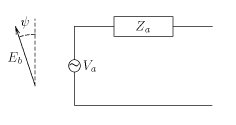 Equivalen circuit for a reveiving antenna.